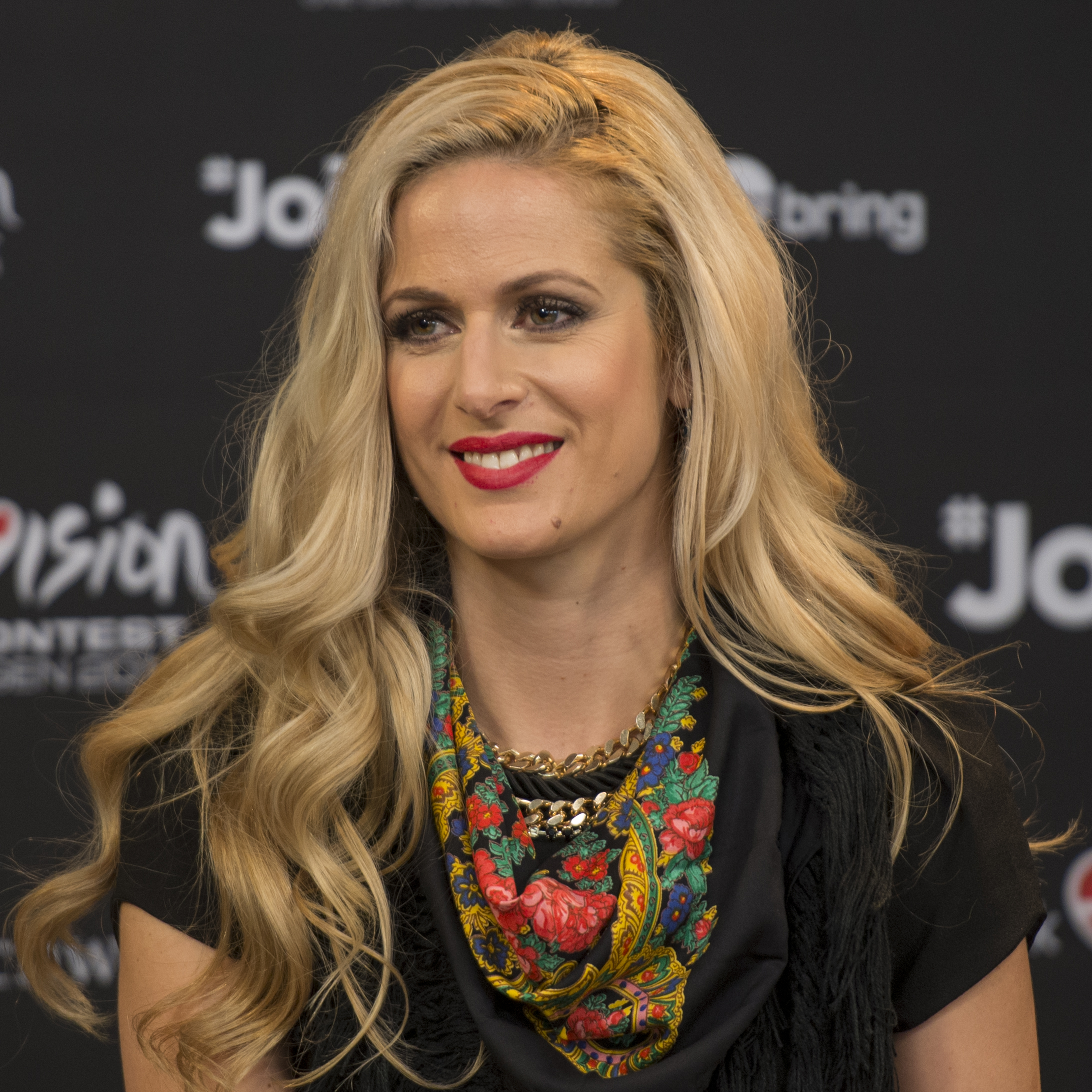 Suzy at a Meet & Greet during the Eurovision Song Contest 2014 Copenhagen. (Help translate this text)